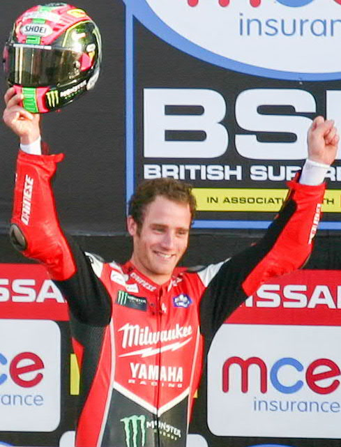 English motorcycle road-racer Tommy Bridewell acknowledging the spectators' plaudits at Brands Hatch Showdown podium, end of BSB season 2014